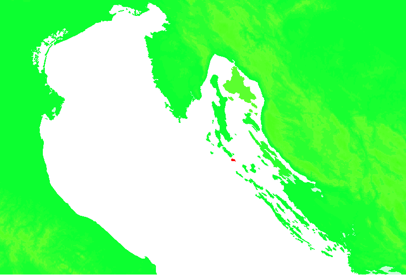 Island of Croatia Croatia - Ilovik.PNG